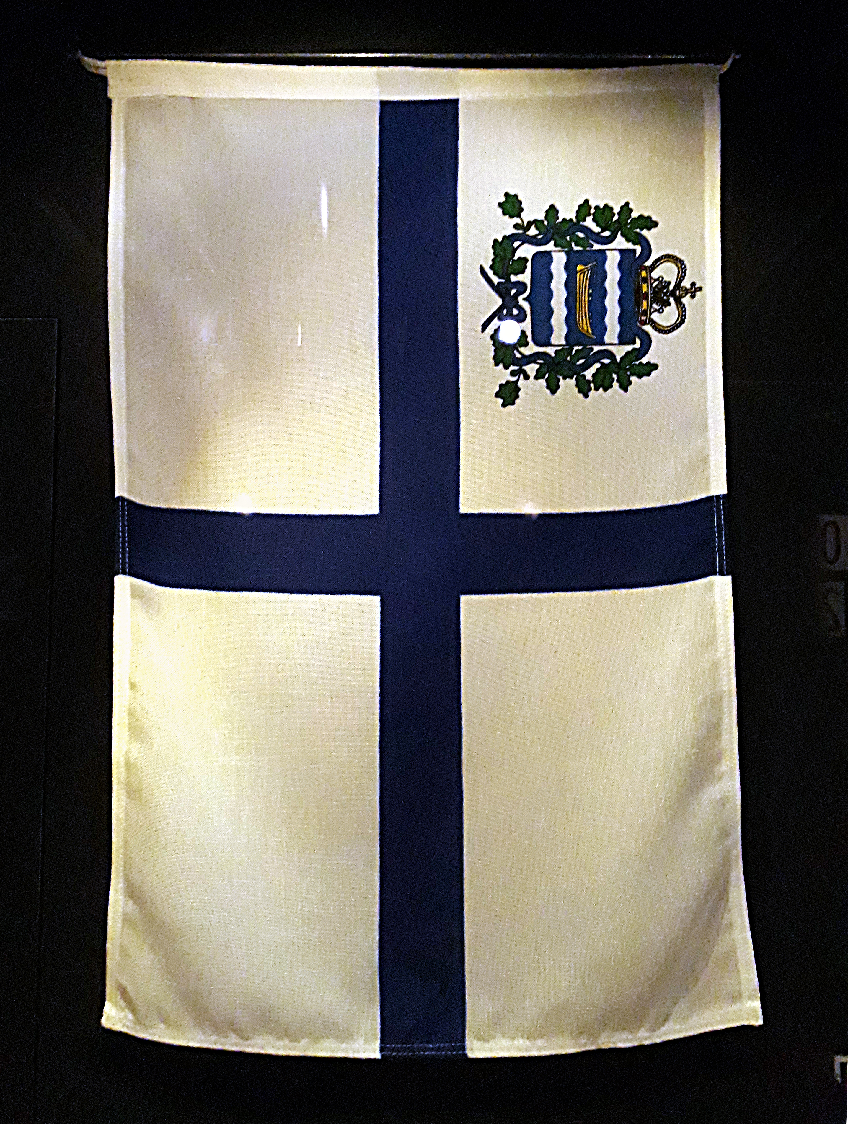 Former flag of Nyländska Jaktklubben (1861-1919).